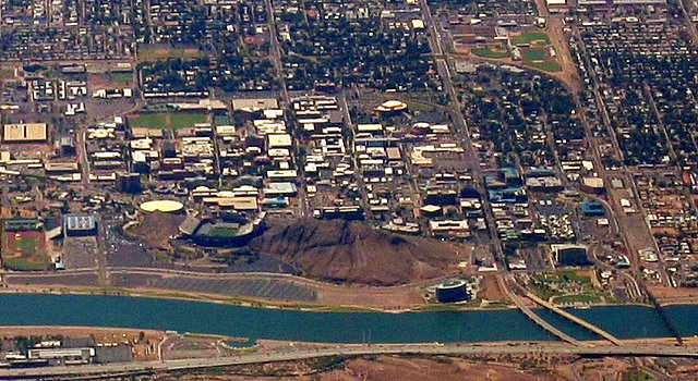 Downtown Tempe / Arizona State University from above. by Nick Schweitzer (schwnj)